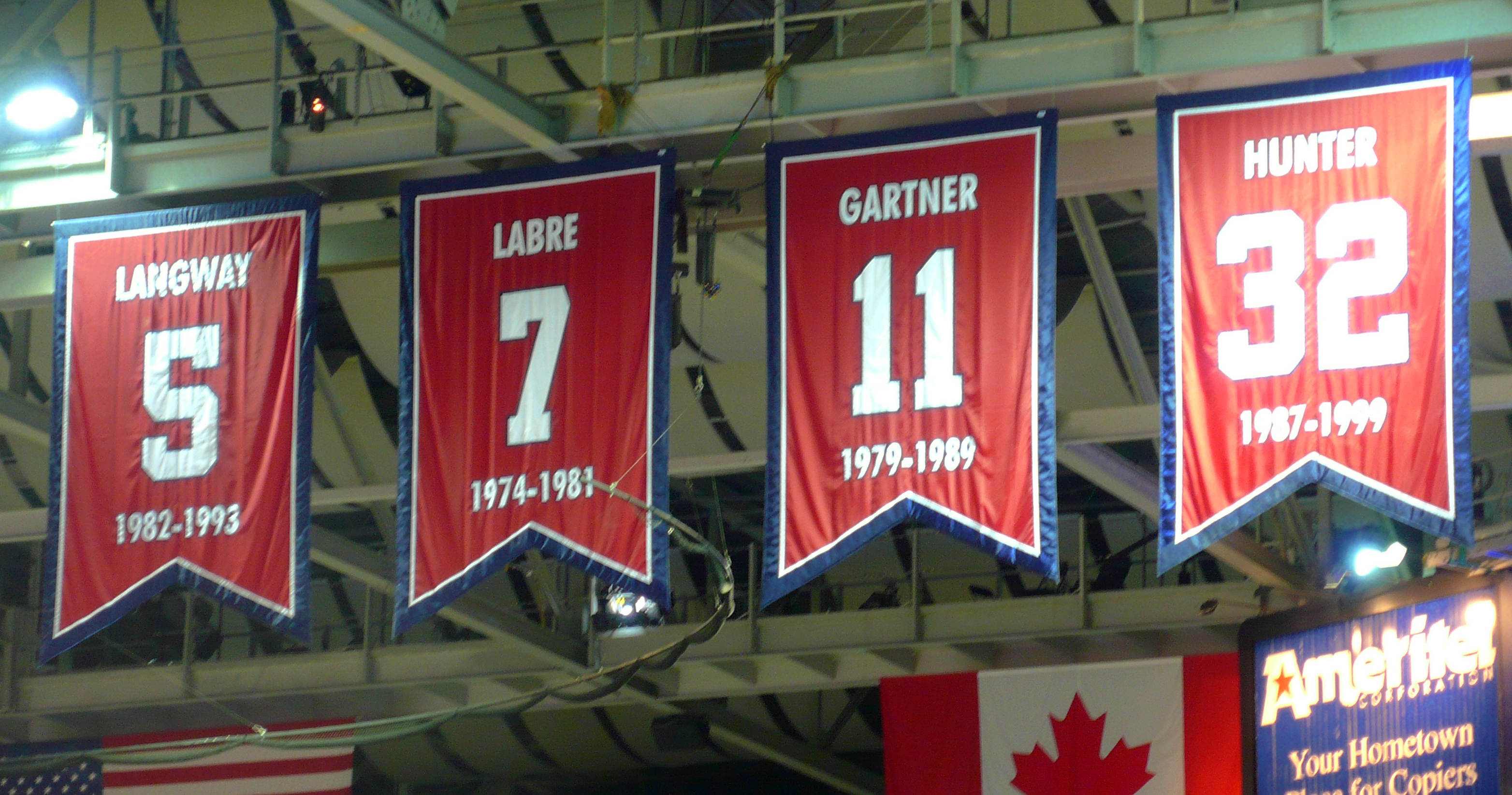 Four banners for the the Washington Capitals retired numbers hang in the Verizon Center, #5 Rod Langway, #7 Yvon Labre, #11 Mike Gartner, and #32 Dale Hunter.